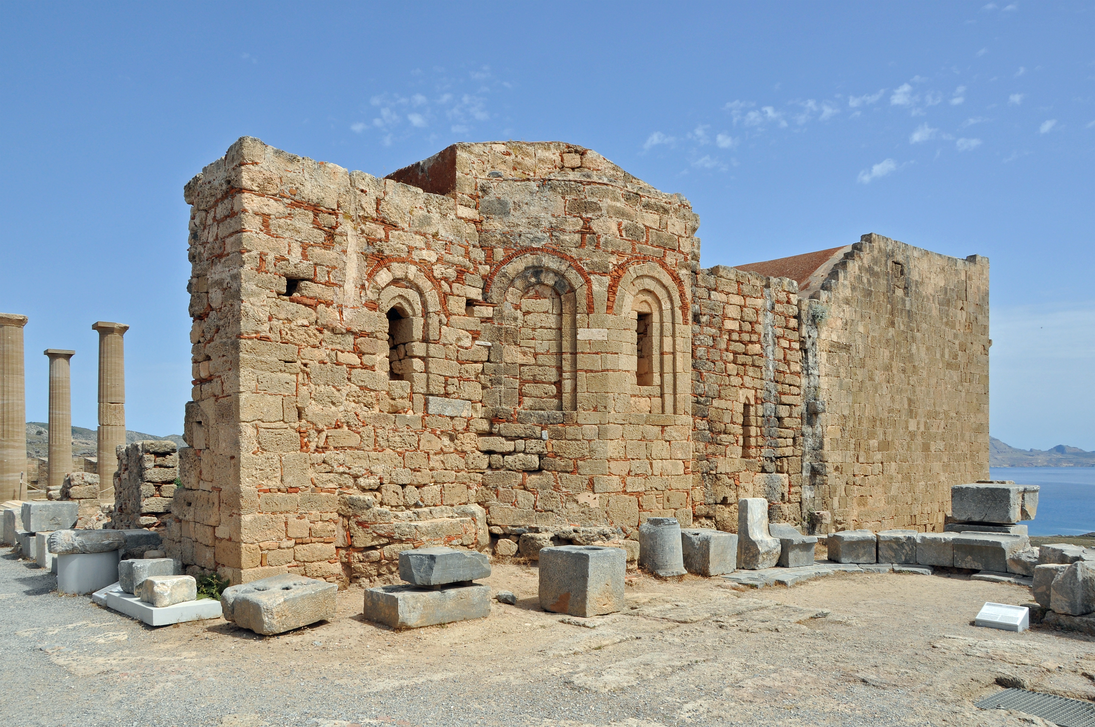 Lindos (Rhodes, Greece): Byzantine St John's church on the Acropolis